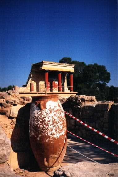 wiki User:唐戈摄影，希腊 Minoan Palace， Knossos